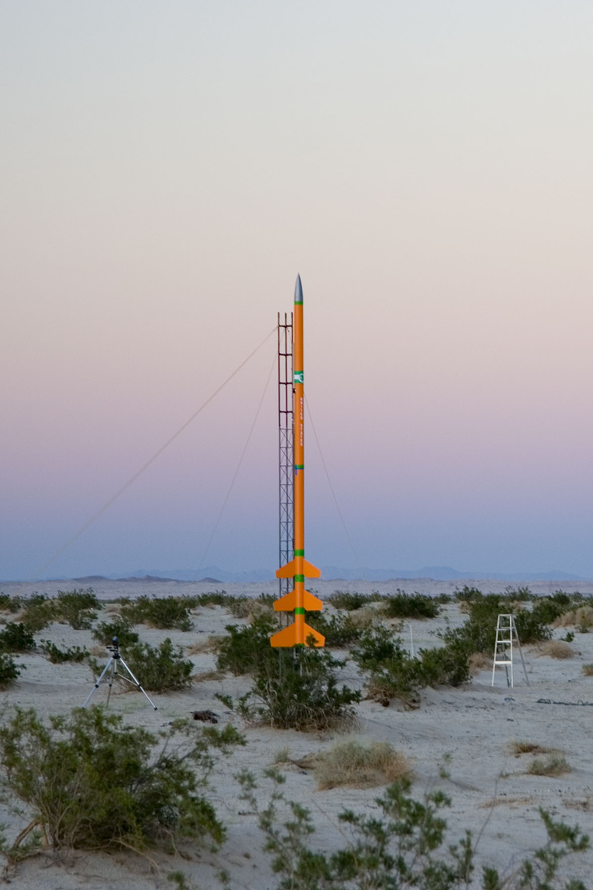 Flight of the Comanche video is at . This rocket is a big upscaling of the 3-stage Estes model. It was built by the Arizona Rocketry Team.